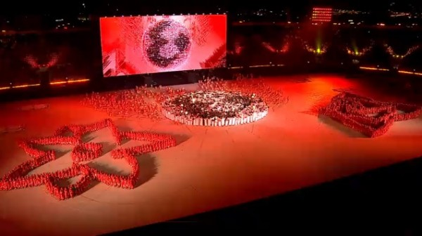 Peter Barnes was the lighting designer